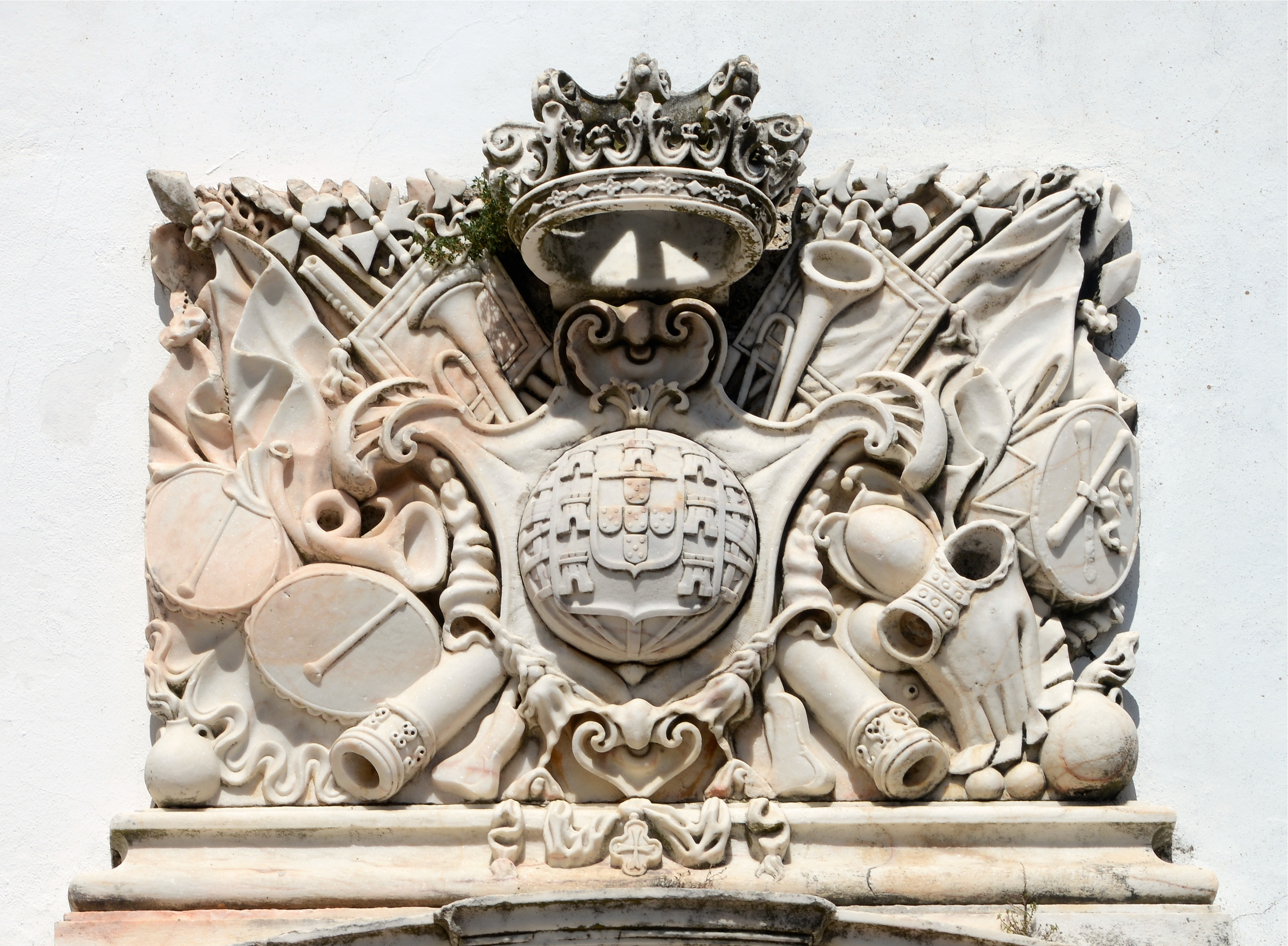 The Royal arms of Portugal in the castle of Estremoz, Portugal